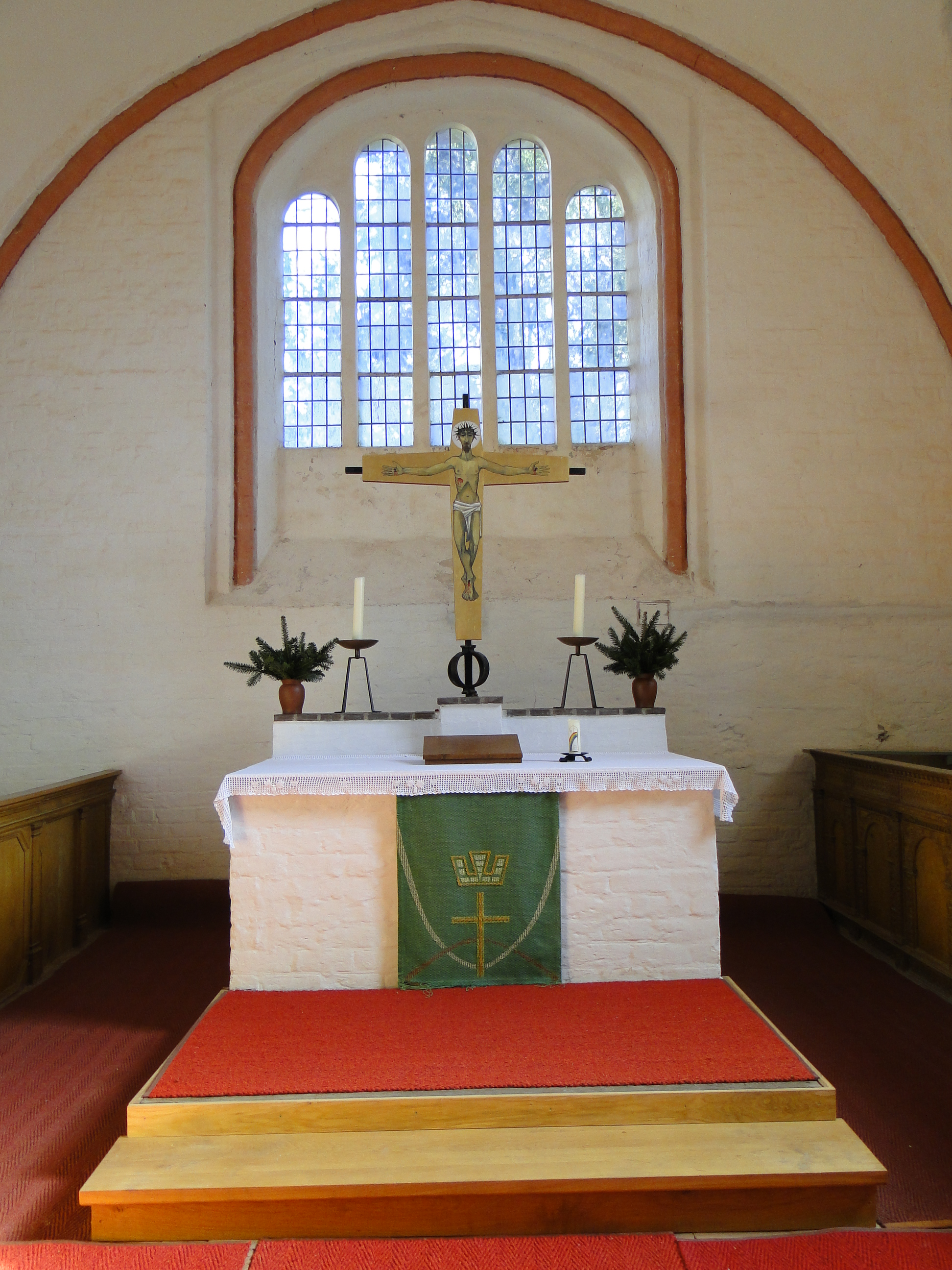 Church in Unter Brüz, district Ludwigslust-Parchim, Mecklenburg-Vorpommern, Germany